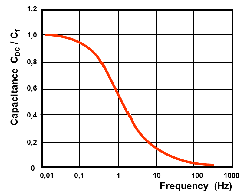 Capacitance of supercapacitors vs frequency